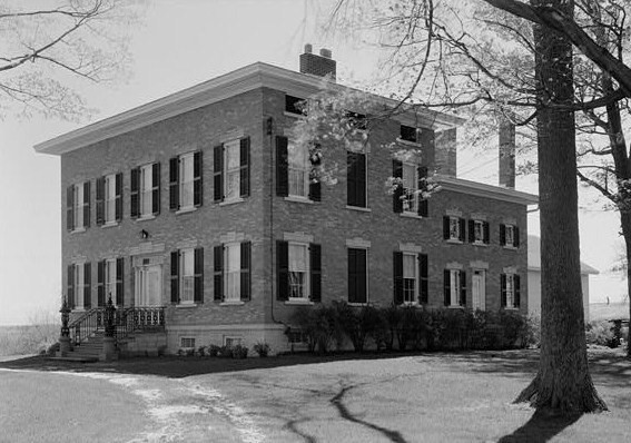 Whig Hall, State Route 370 & Gates Road, Plainville vicinity (Onondaga County, New York) cropped This file comes from the Historic American Buildings Survey (HABS), Historic American Engineering Record (HAER) or Historic American Landscapes Survey (HALS). These are programs of the National Park Service established for the purpose of documenting historic places. Records consist of measured drawings, archival photographs, and written reports. When reusing please credit: Library of Congress, Prints & Photographs Division, NY,34-PLAIV.V,1-1 This tag does not indicate the copyright status of the attached work. A normal copyright tag is still required. See Commons:Licensing. This work is in the public domain in the United States because it is a work prepared by an officer or employee of the United States Government as part of that person’s official duties under the terms of Title 17, Chapter 1, Section 105 of the US Code. Note: This only applies to original works of the Federal Government and not to the work of any individual U.S. state, territory, commonwealth, county, municipality, or any other subdivision. This template also does not apply to postage stamp designs published by the United States Postal Service since 1978. (See § 313.6(C)(1) of Compendium of U.S. Copyright Office Practices). It also does not apply to certain US coins; see The US Mint Terms of Use. This file has been identified as being free of known restrictions under copyright law, including all related and neighboring rights. Object location43° 09′ 33″ N, 76° 26′ 01″ W